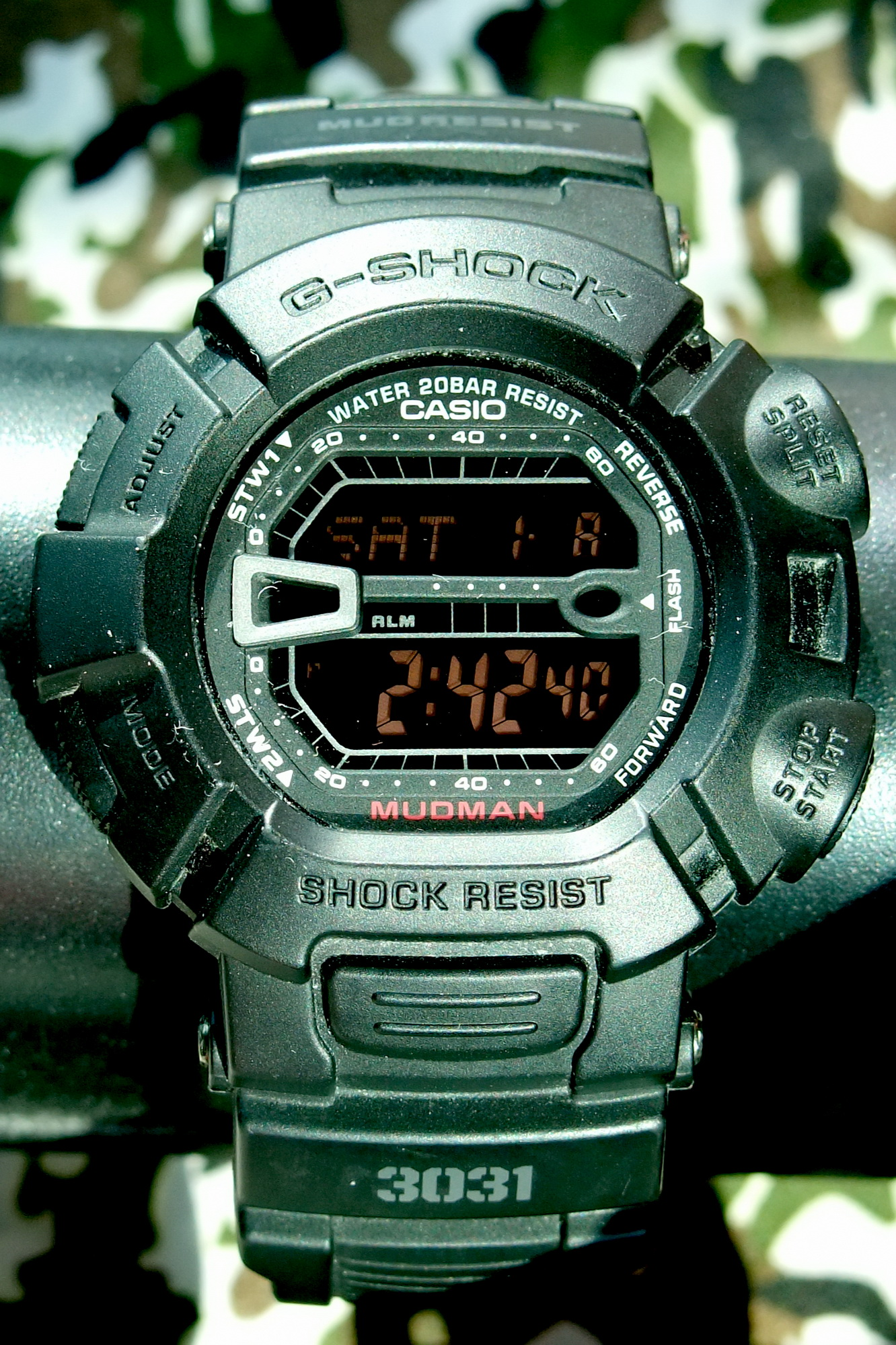 Casio Master of G. Mudman series. Model G9000MS-1. It is equipped with light-on-dark digital display to match the military inspired stealth theme.